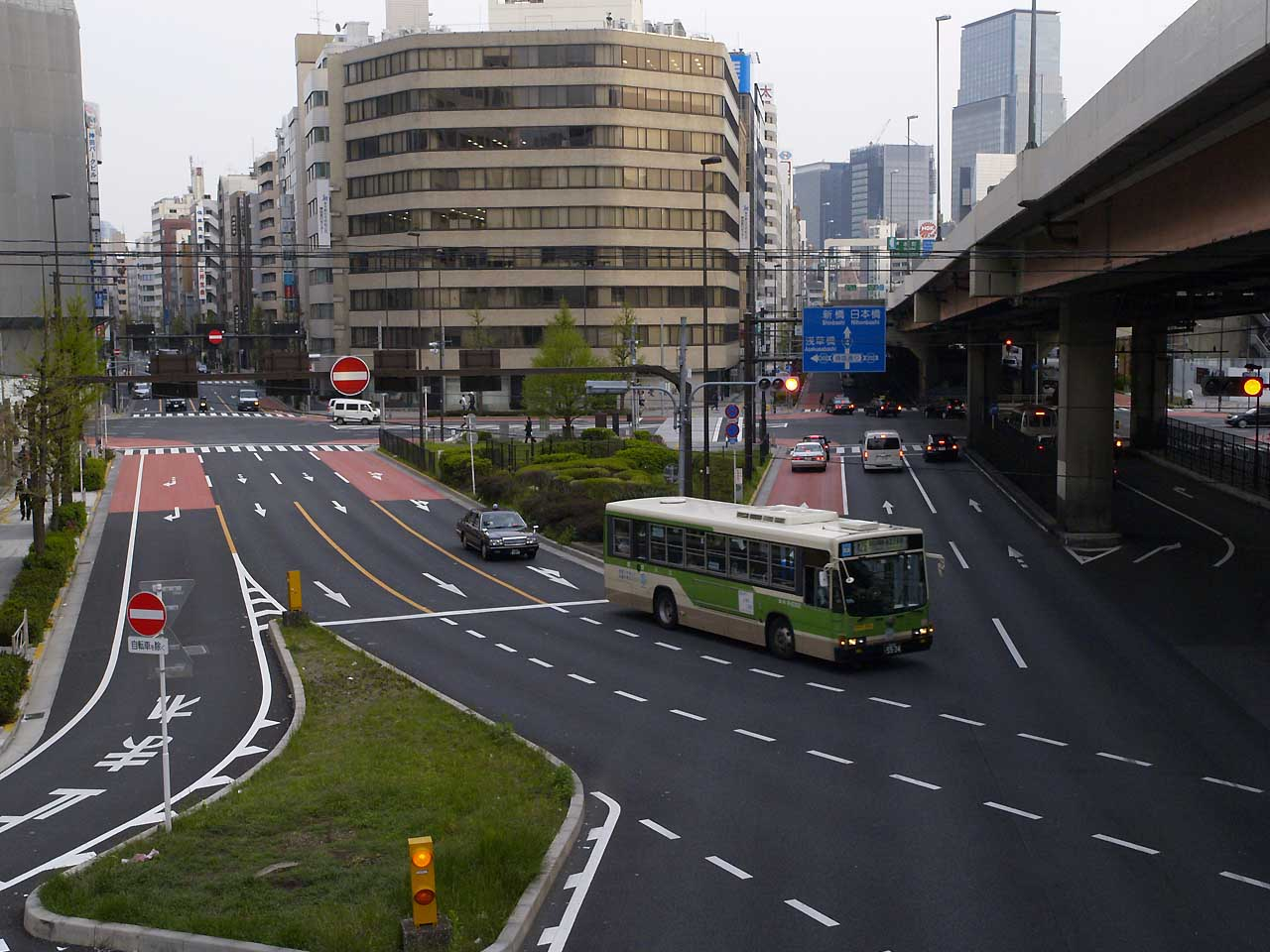 Toei Bus Aki 26 route, westbound (for Akihabara Station) route through Iwamotocho crossing directry on every Sunday and holiday. On weekday and Saturday, throuth via Kanda Station. Model: Isuzu Cubic NE-LV288L License plate: TKA22 KA5534